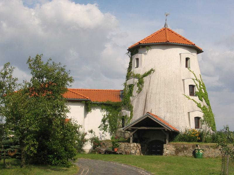 Windmill (dutch type) nearby Groß Marzehns. The village Groß Marzehns is a part of the municipality Rabenstein/Fläming in the district Potsdam Mittelmark, state Brandenburg, Germany. Groß Marzehns appertains to the natural preserve Naturpark Hoher Fläming.